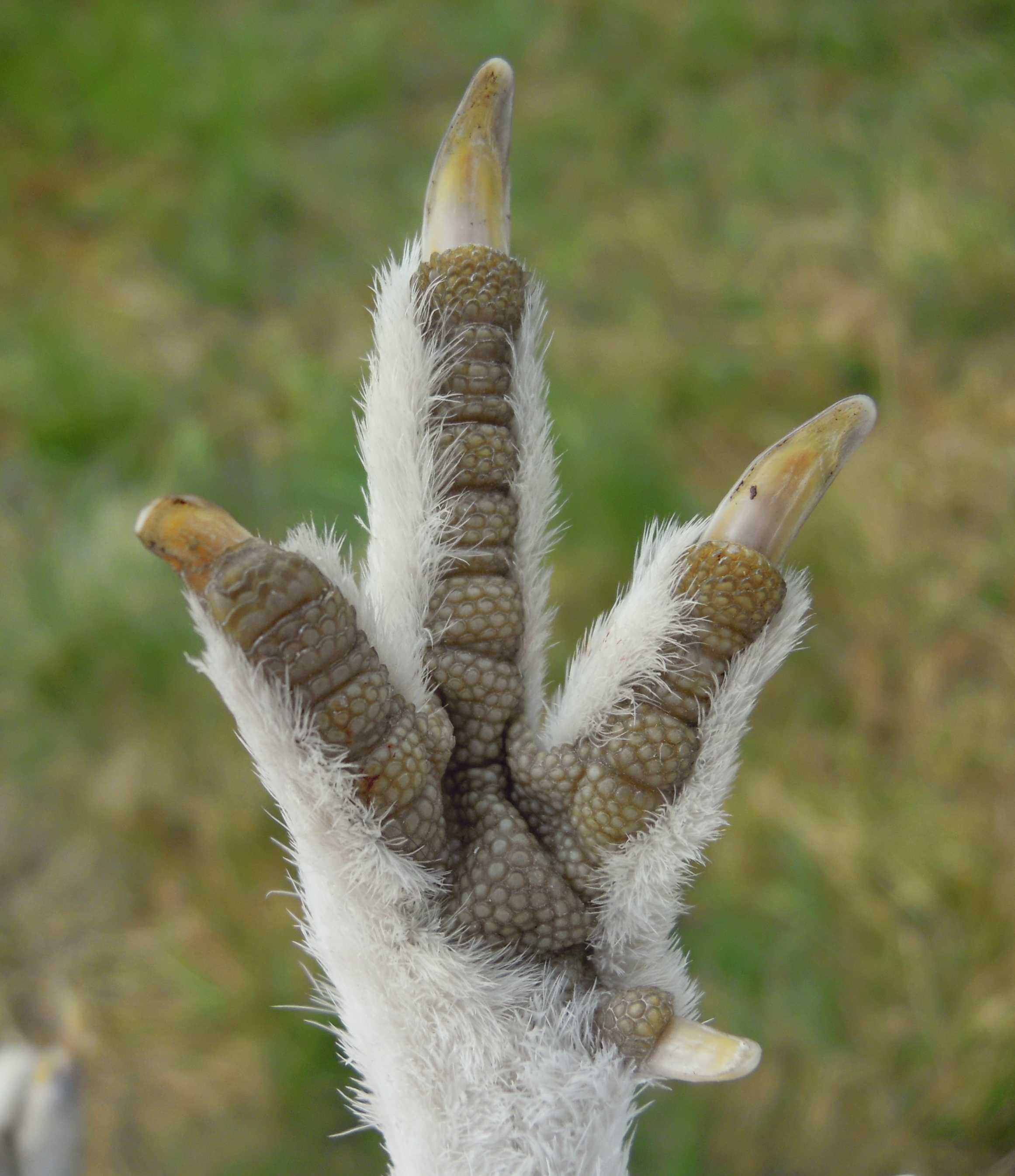 Willow Ptarmigan (Lagopus lagopus), also known as the Willow Grouse - foot. Blefjell, Norway.